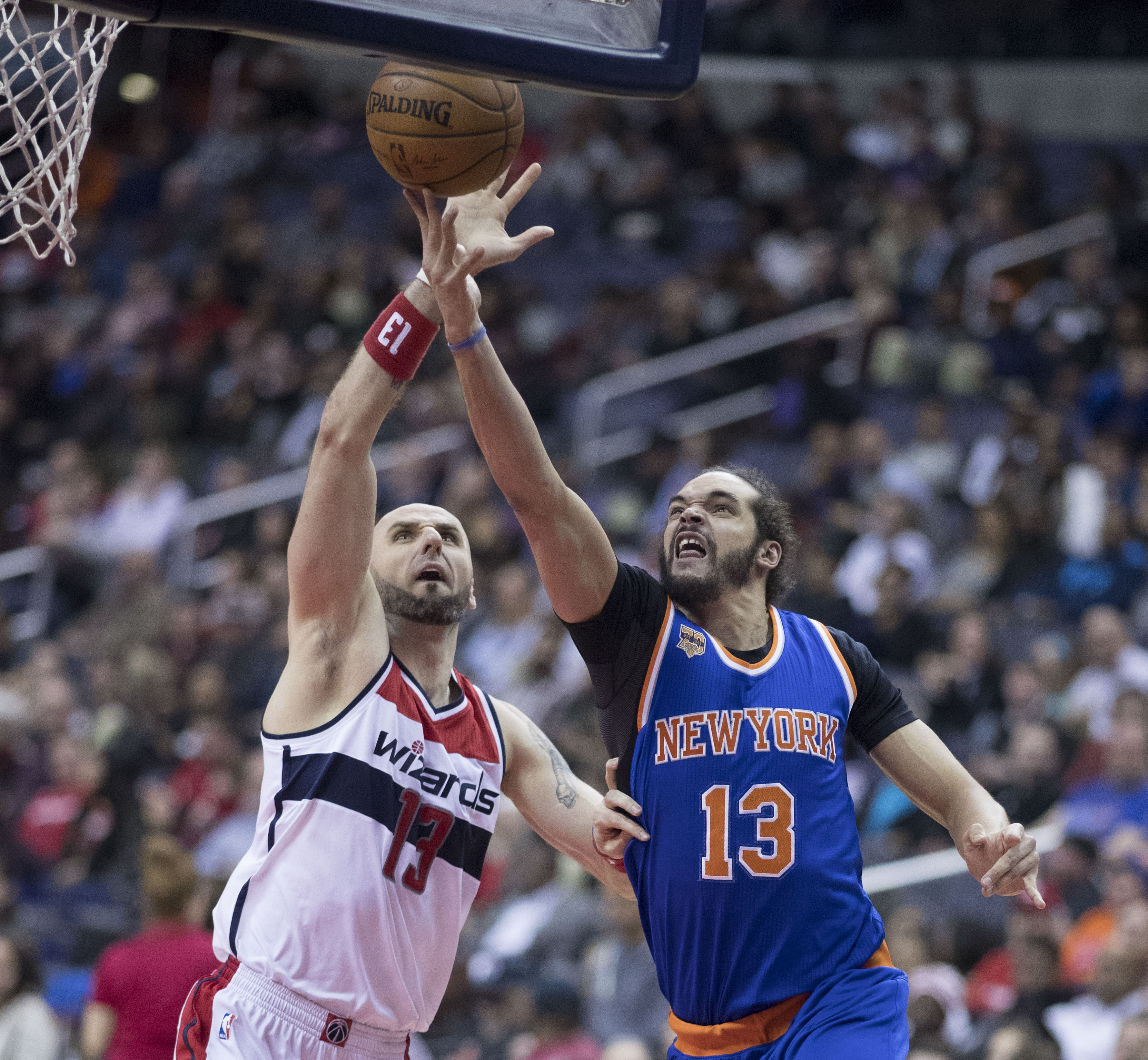 Knicks at Wizards 1/31/17